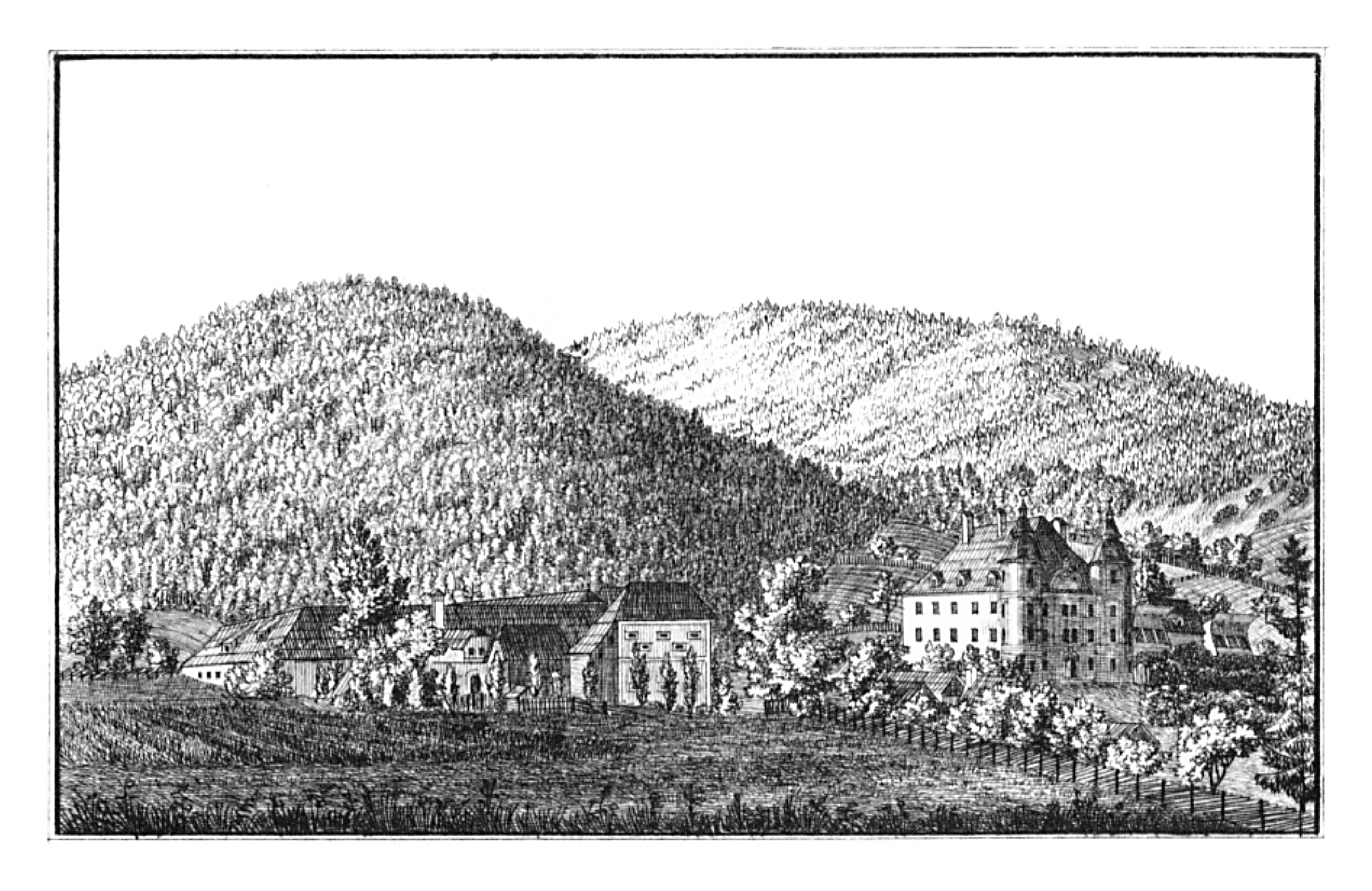 J. F. Kaiser - lithographirte Ansichten der Steyermärkischen Städte, Märkte und Schlösser, Graz 1824-1833 Joseph Franz Kaiser (1786–1859) Alternative names J. F. KaiserDescriptionAustrian printer and editorDate of birth/death 11 March 1786 19 September 1859Location of birth/death Graz (Styria) GrazAuthority control : Q1499963 VIAF: 30629353 ISNI: 0000 0000 3083 0153 LCCN: n87141671 GND: 129880159 NLP: A24960305 WorldCat creator QS:P170,Q1499963 . Scanprojekt Community Projektbudget 2012 This scan or this PDF-file was created within the GLAM-project Bookscanning, supported by Wikimedia Germany and Wikimedia Austria as a part of the community-project to capture books, documents and pictures which are not eligible to copyright or for which the copyright has expired. This document describes or depicts an object which is located in Austria today. Send requests for uncompressed scans to Hubertl. This work is in the public domain in its country of origin and other countries and areas where the copyright term is the author's life plus 100 years or fewer. You must also include a United States public domain tag to indicate why this work is in the public domain in the United States. This file has been identified as being free of known restrictions under copyright law, including all related and neighboring rights.